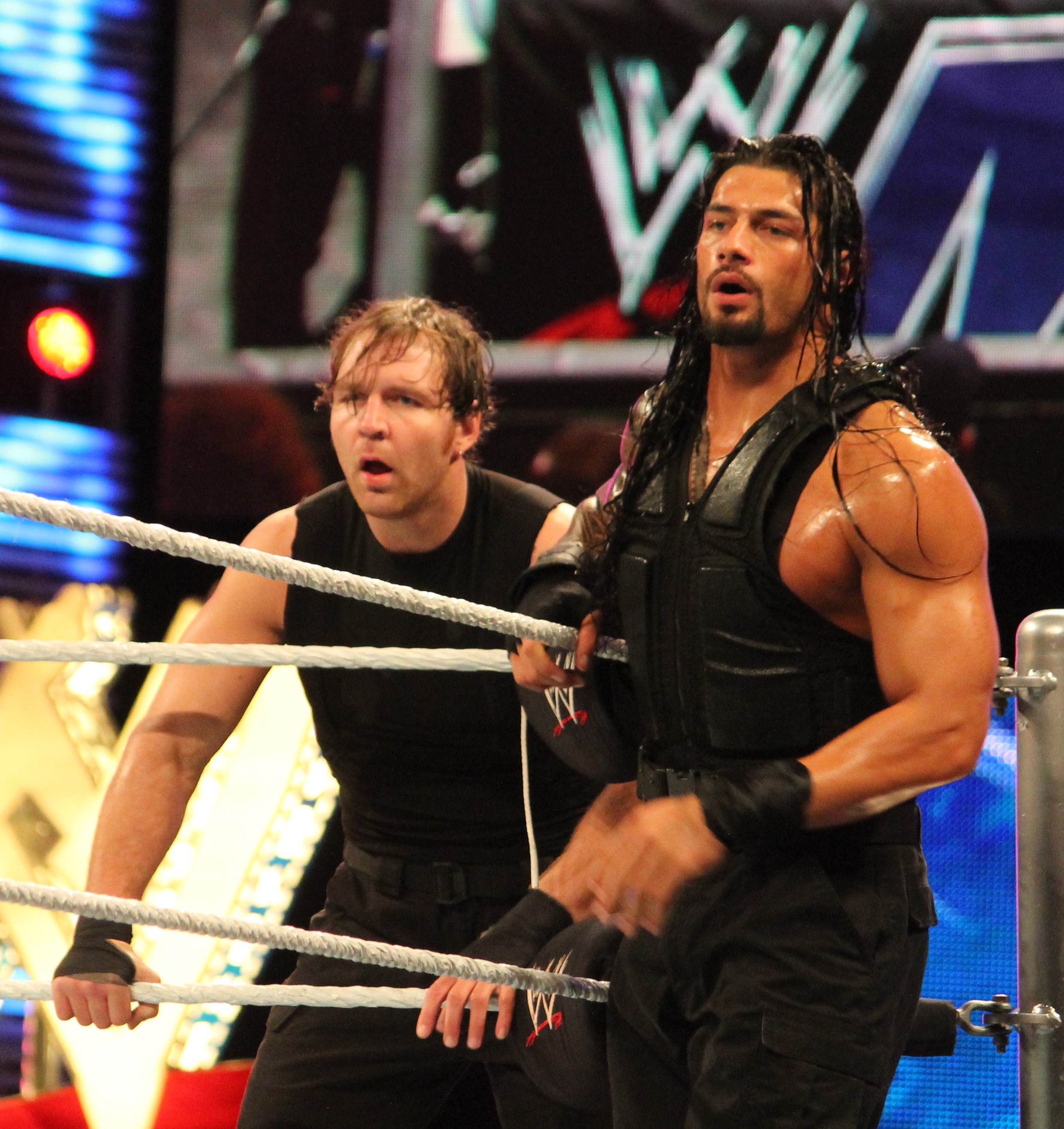 Dean Ambrose and Roman Reigns (right) at the post-WrestleMania SmackDown tapings on 8 April 2014 in Lafayette.